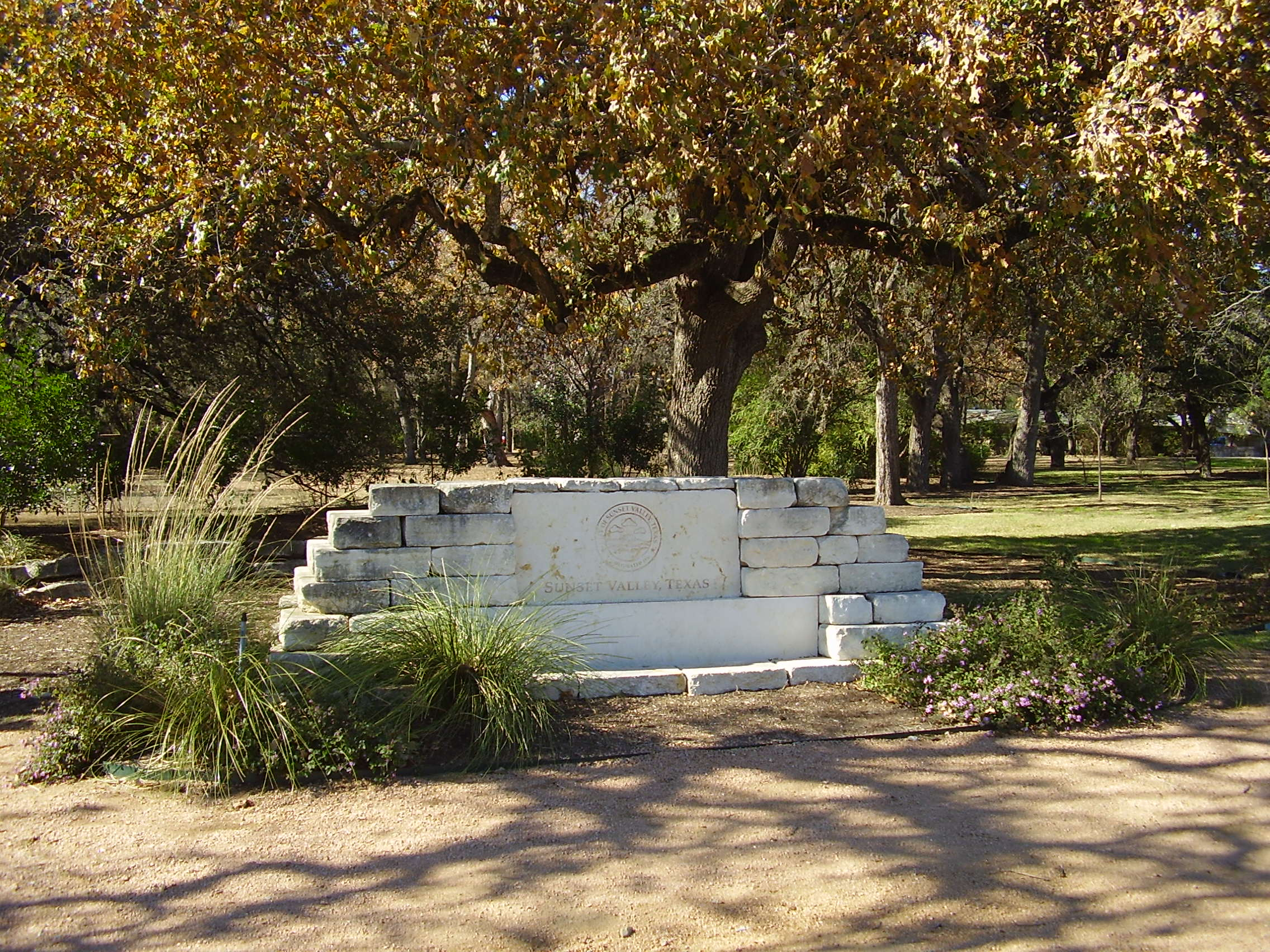 Sunset Valley, Texas sign